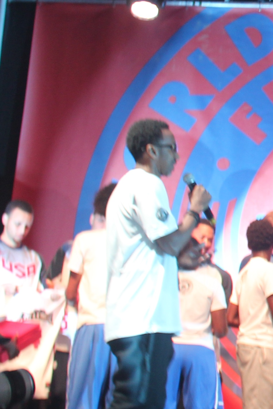 Scoop Jackson at 2014 World Basketball Festival at 63rd Street Beach in Chicago